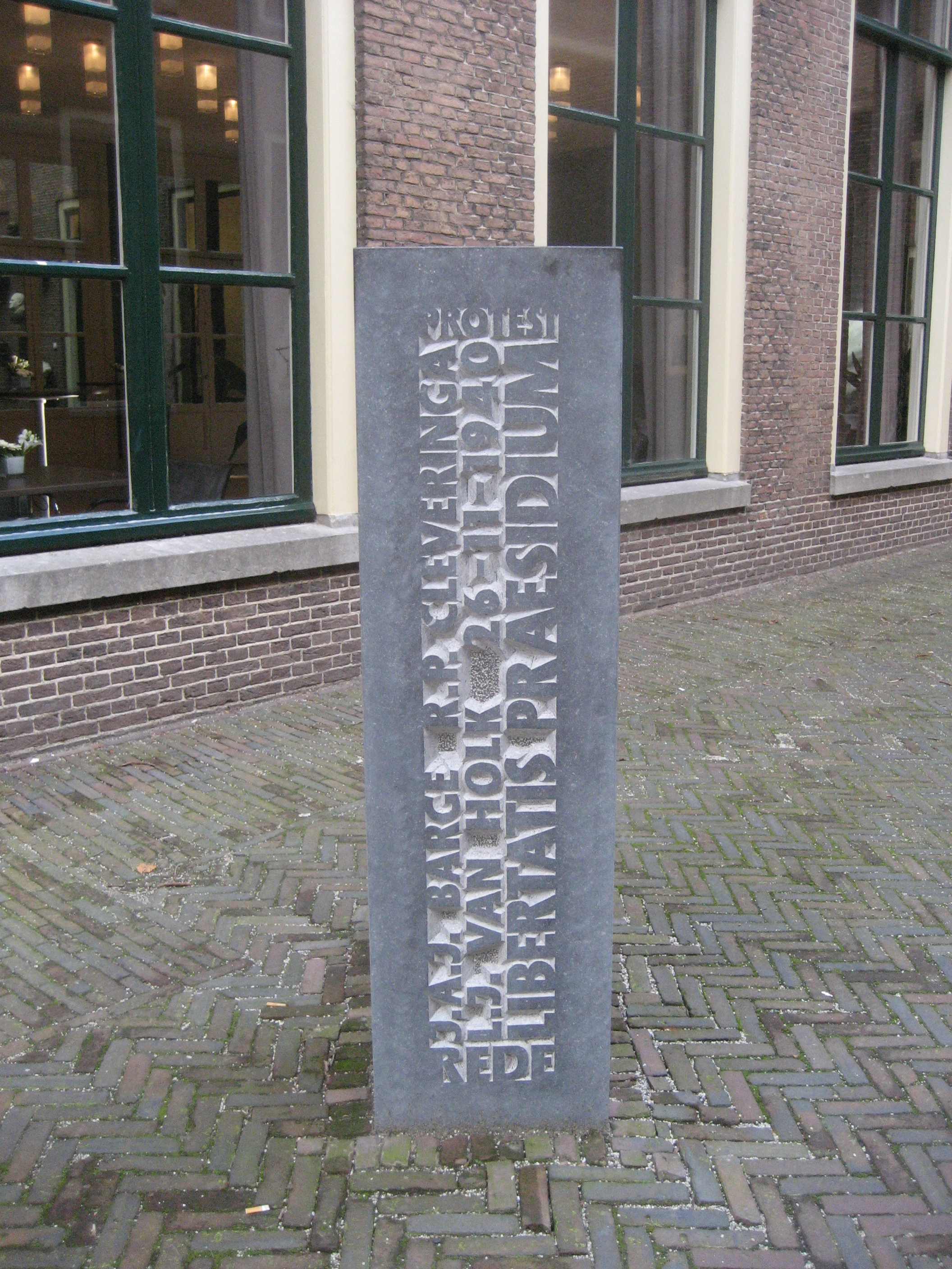 Libertatis Praesidium, sculpture near Academy Building, Leiden (the Netherlands)